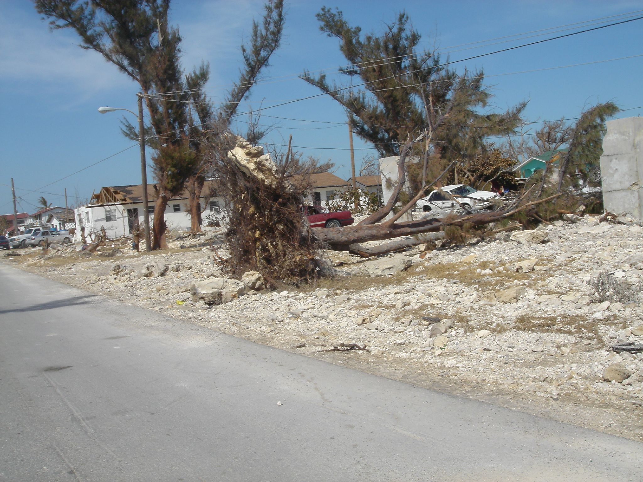 Fallen trees in the Bahamas in the aftermath of Hurricane Wilma in 2005.